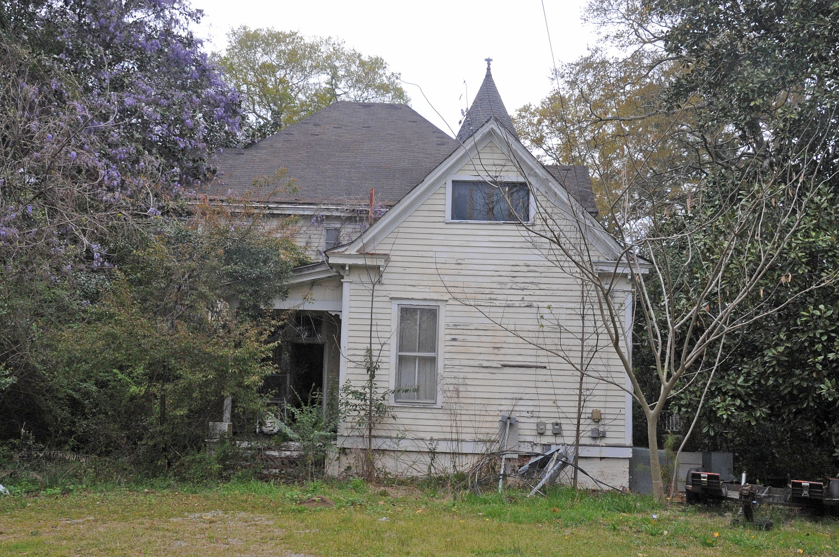 1897-1900 FOR CHARLES SMITH, PROMINENT POLITICIAN; QUEEN ANNE STYLE WITH 2 ½ HALF STORY ROUND TURRET IS THE OUTSTANDING UNIQUE FEATURE